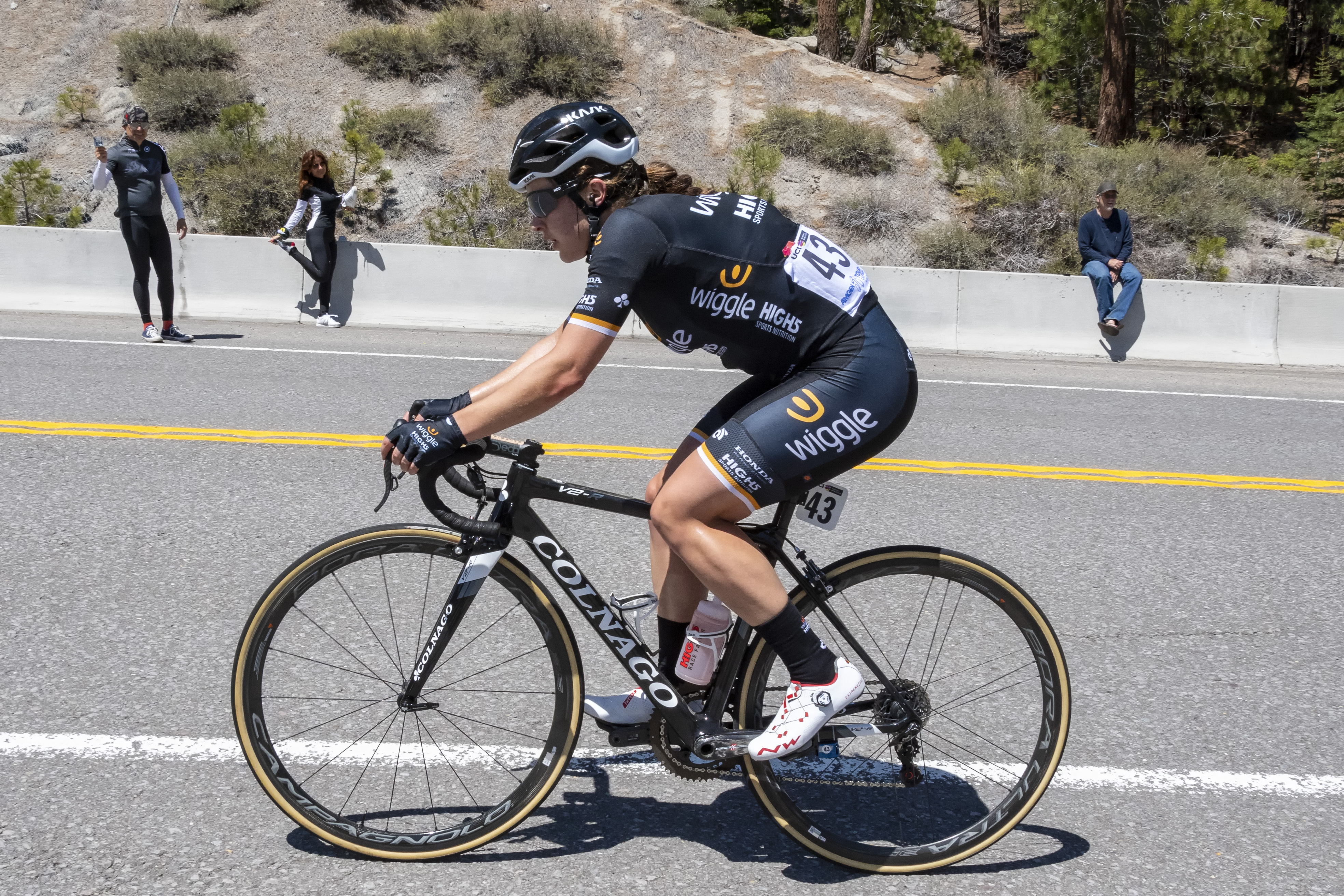 Amgen Women's Tour of California 2018